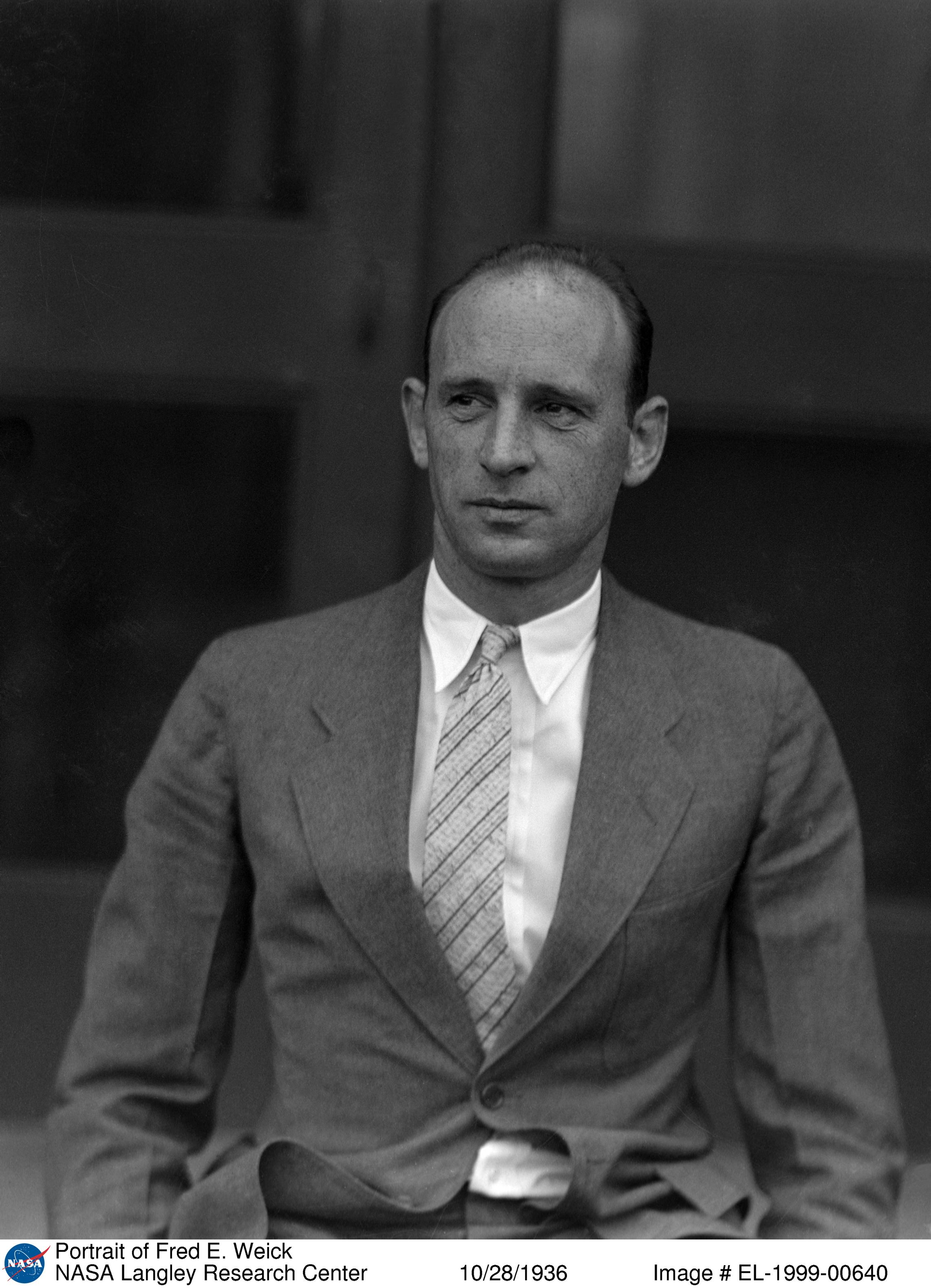 Fred E. Weick: Formal portrait of Fred E. Weick, head of the Propeller Research Tunnel section, 1925-1929.